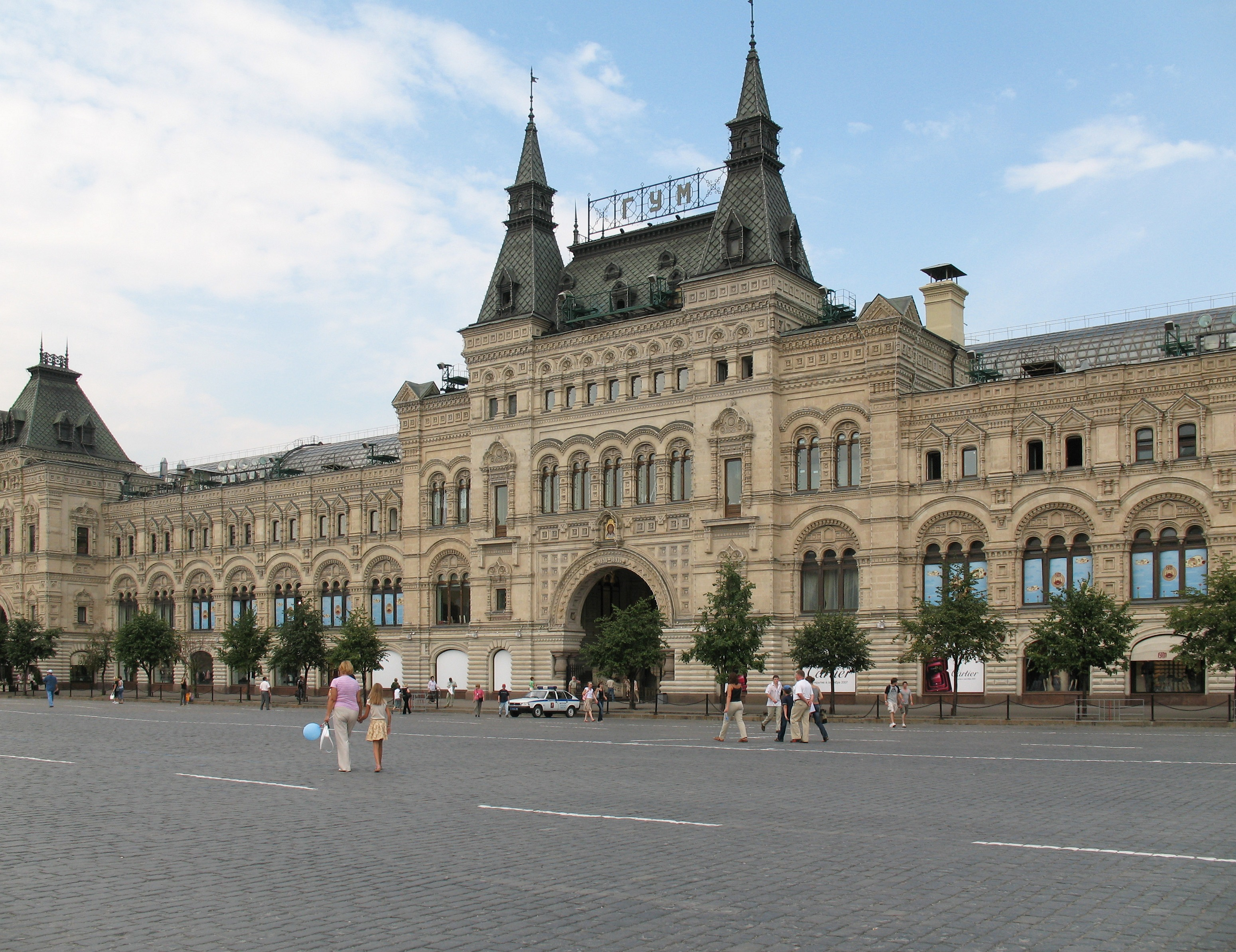 GUM, Moscow, Russia